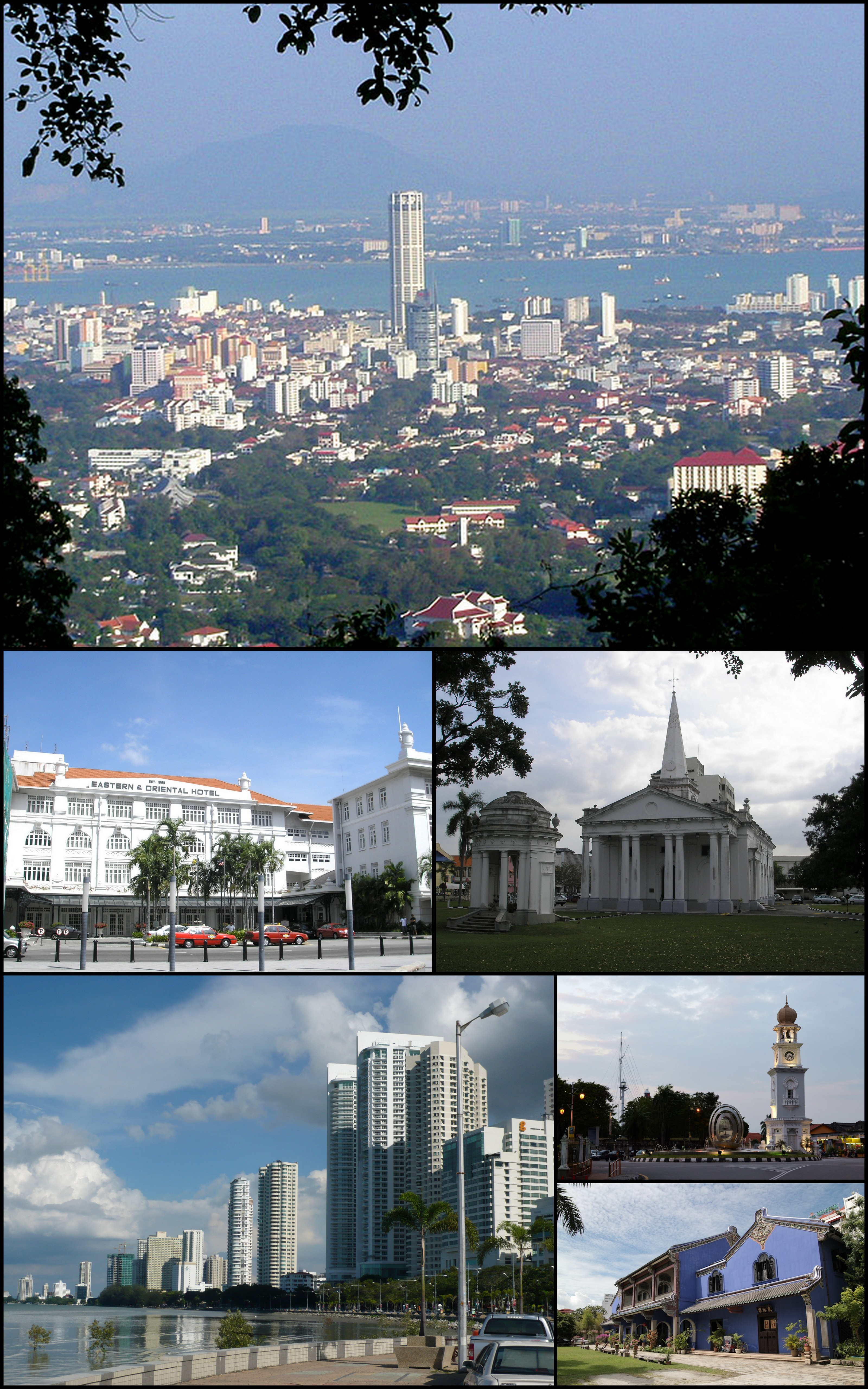 A composite of images taken in the city of George Town, Penang, Malaysia.